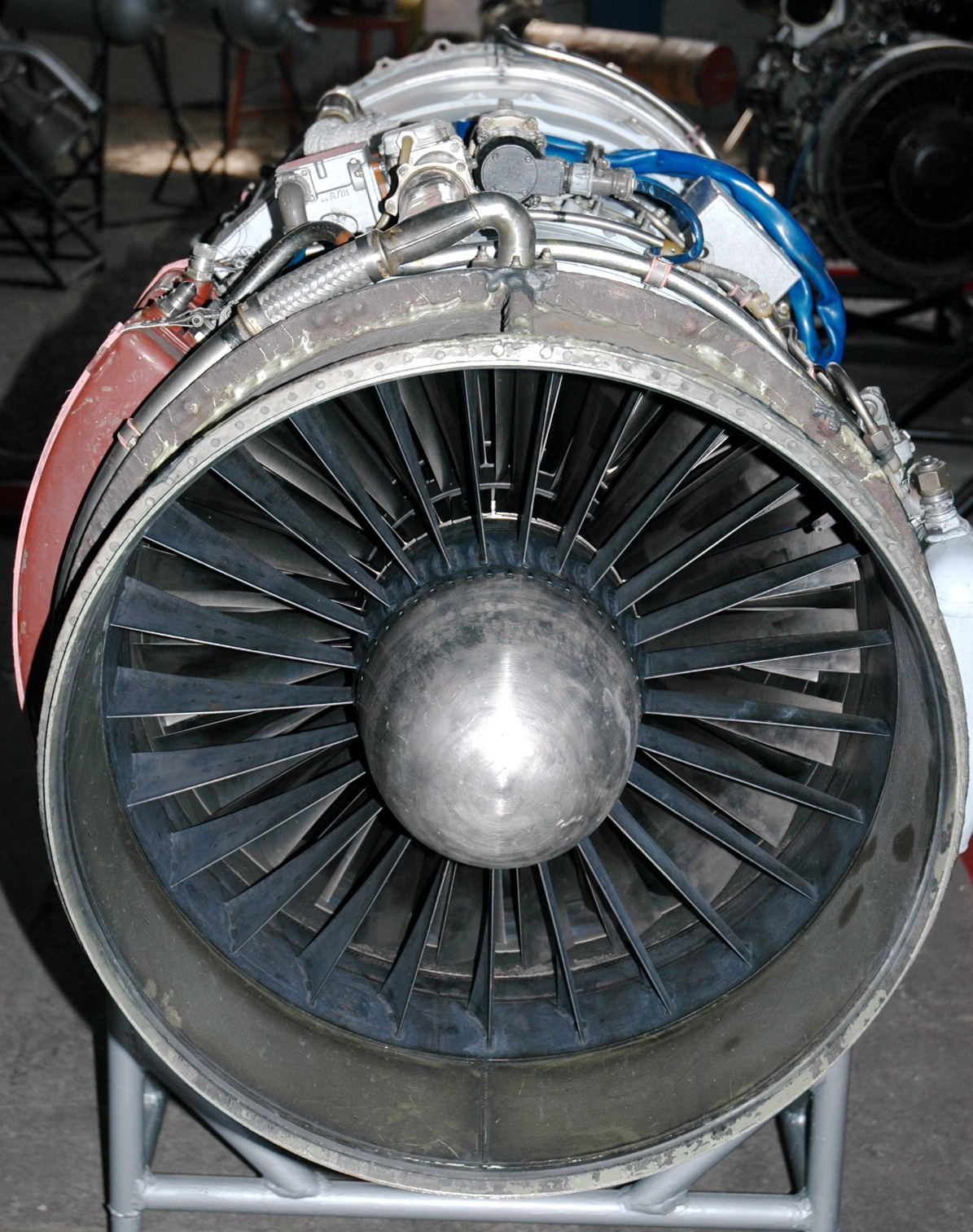 Progress-Ivchenko AI-25 turbofan engine (Museum of Polish Aviation, Cracow)